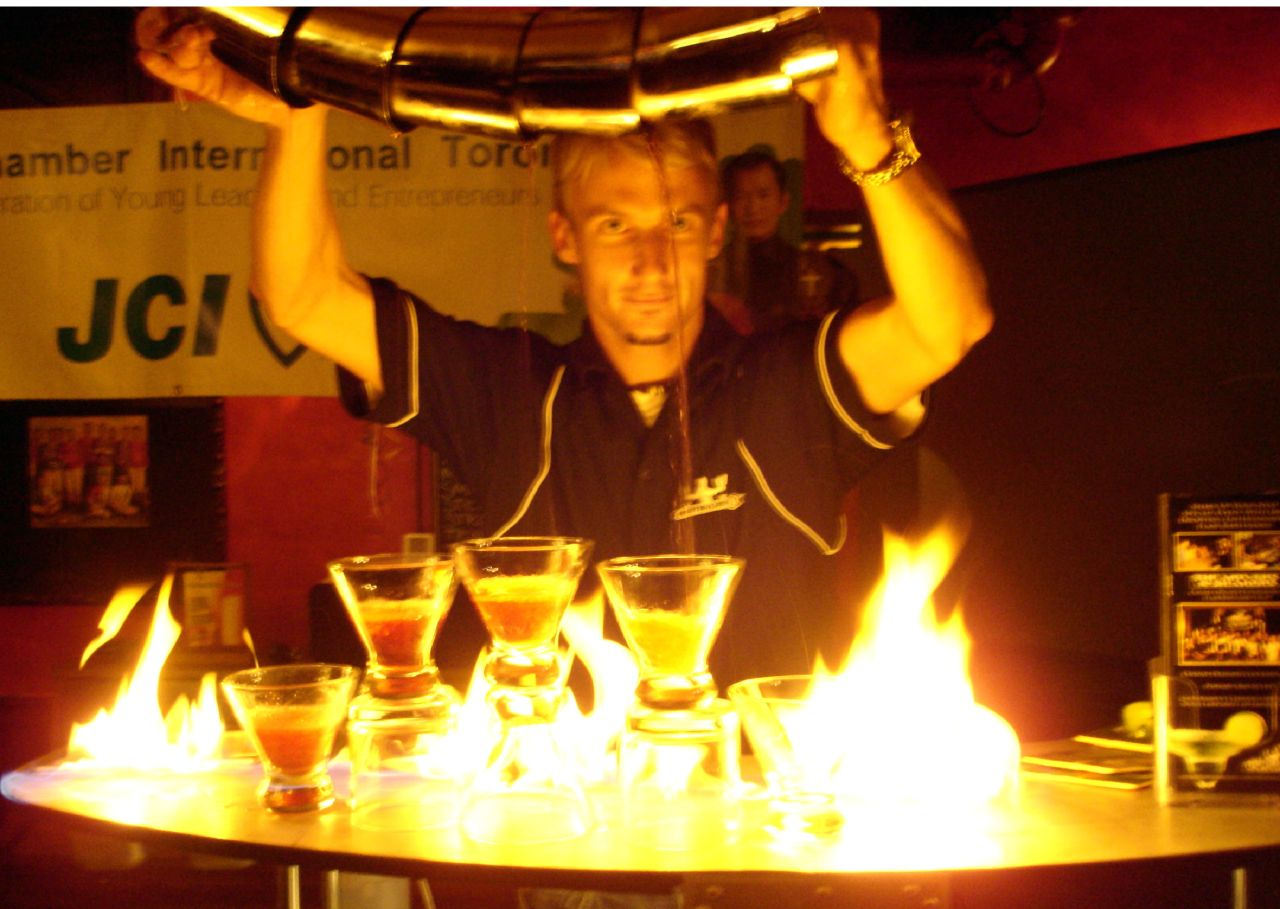 Gavin MacMillan, founder of the BartenderOne school, shows How to pour 5 martinis at the same time while on fire: "Important skills of our time." (drinks, cocktail, cocktail hour, martini, flaming, fire, bar, mixology, alloftomspictures)